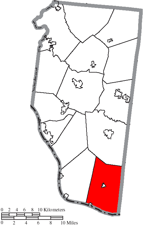 Map of the municipal and township boundaries of Clermont County, Ohio, United States, as of the 2000 census, with the location of Franklin Township highlighted. Township borders are shown only in unincorporated areas in order to differentiate incorporated and unincorporated areas more clearly.